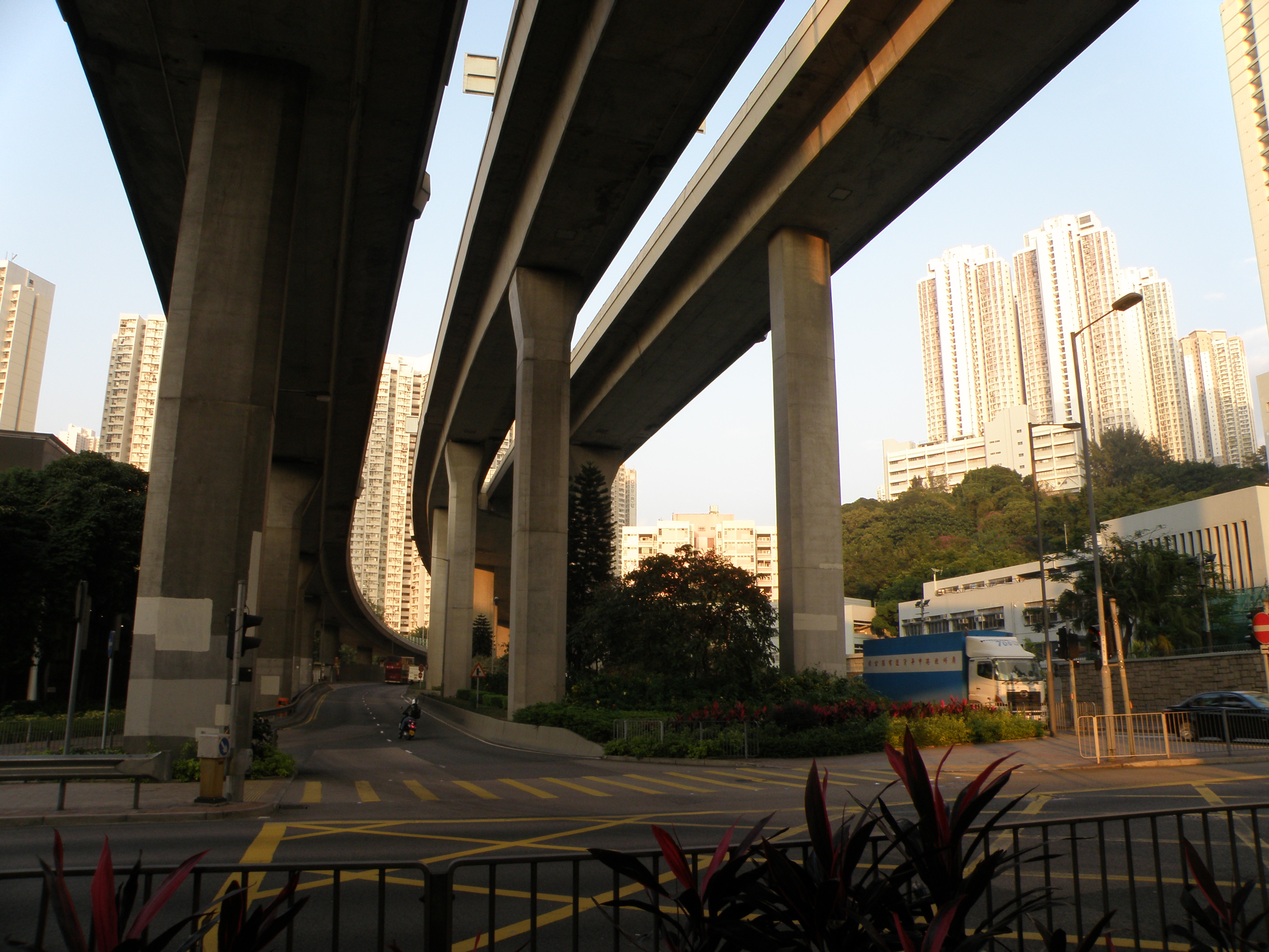 Tseung Kwan O Road in Kwun Tong, Hong Kong.